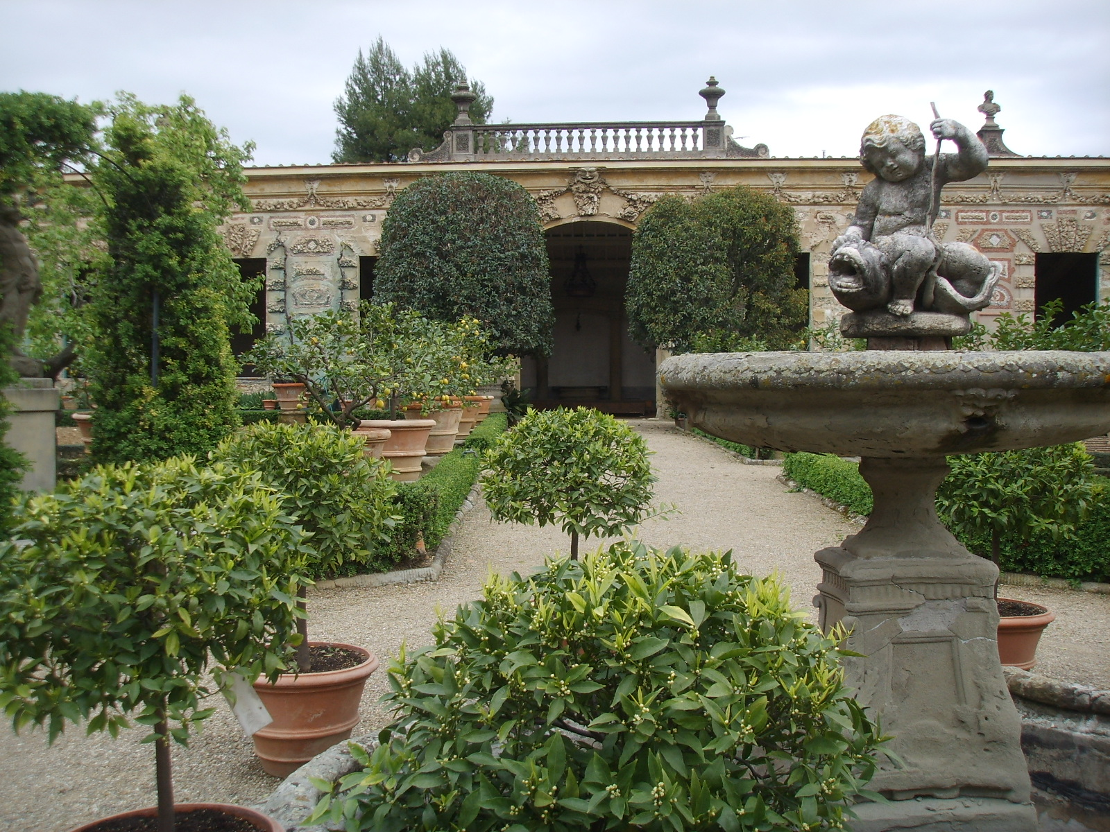 Pomario (Orangerie, rear) and potted citrus, with fountain — Villa La Pietra gardens, Tuscany.